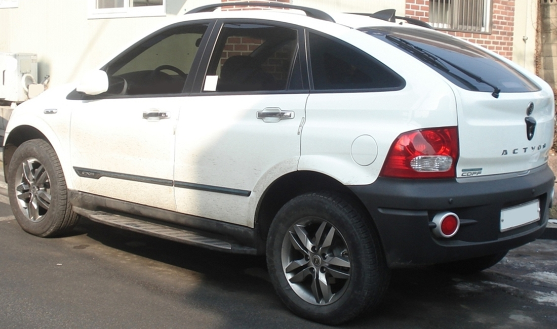 SsangYong Actyon